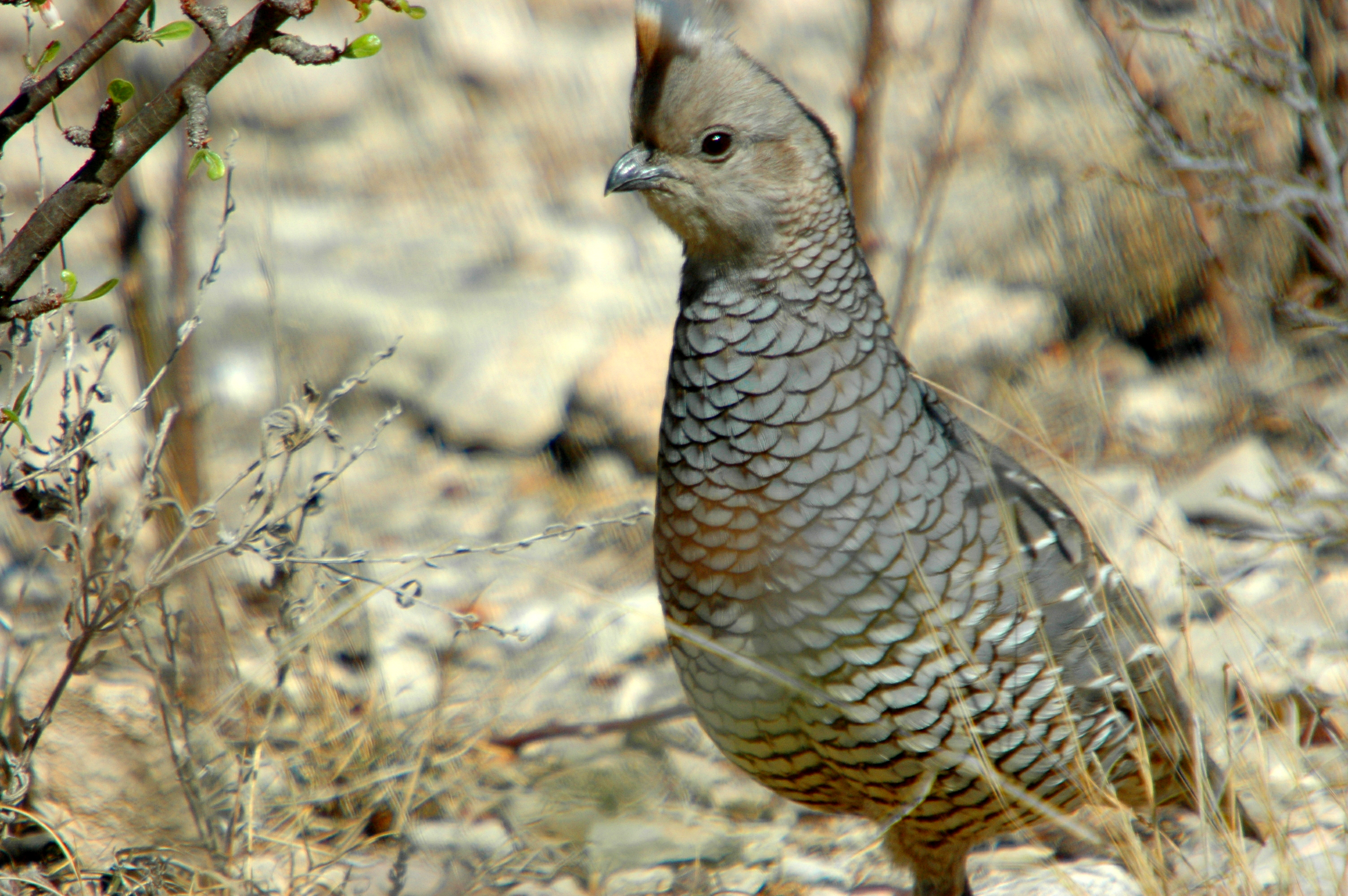 Area near the RV campground at the Laughlin AFB Southwinds Marina. Del Rio, TX, Val Verde County, Amistad National Recreational Area